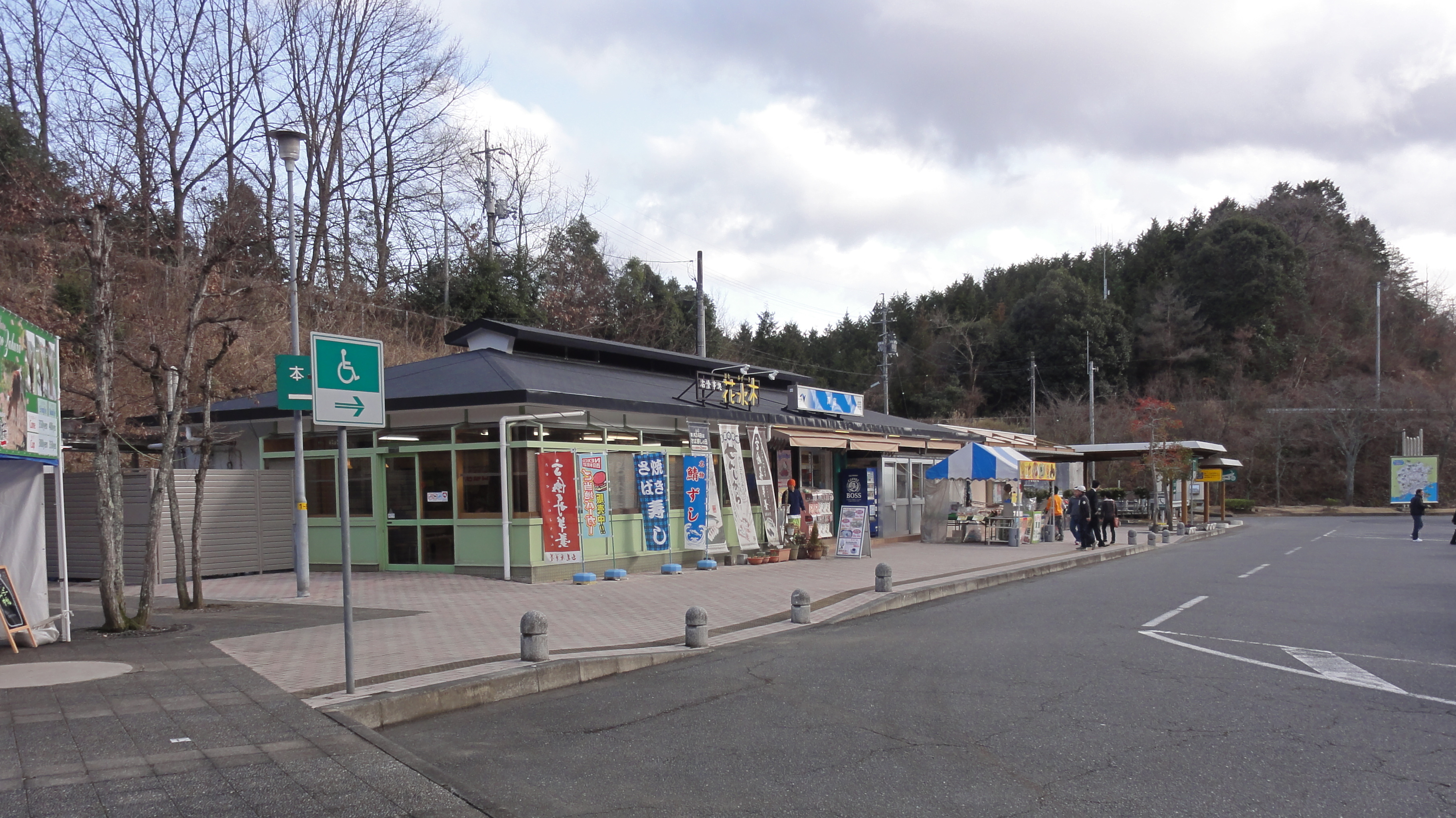 Maniwa Paking Area kudari,Okayama prefecture, Japan